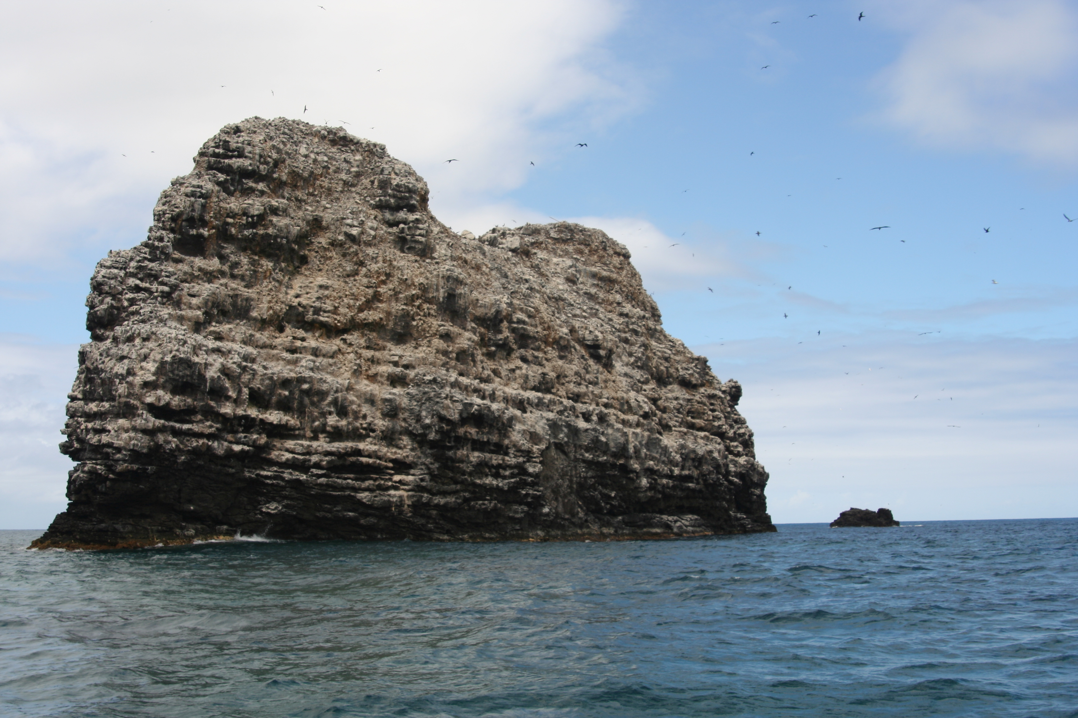 La Pérouse Pinnacle, French Frigate Shoals, Northwestern Hawaiian Islands